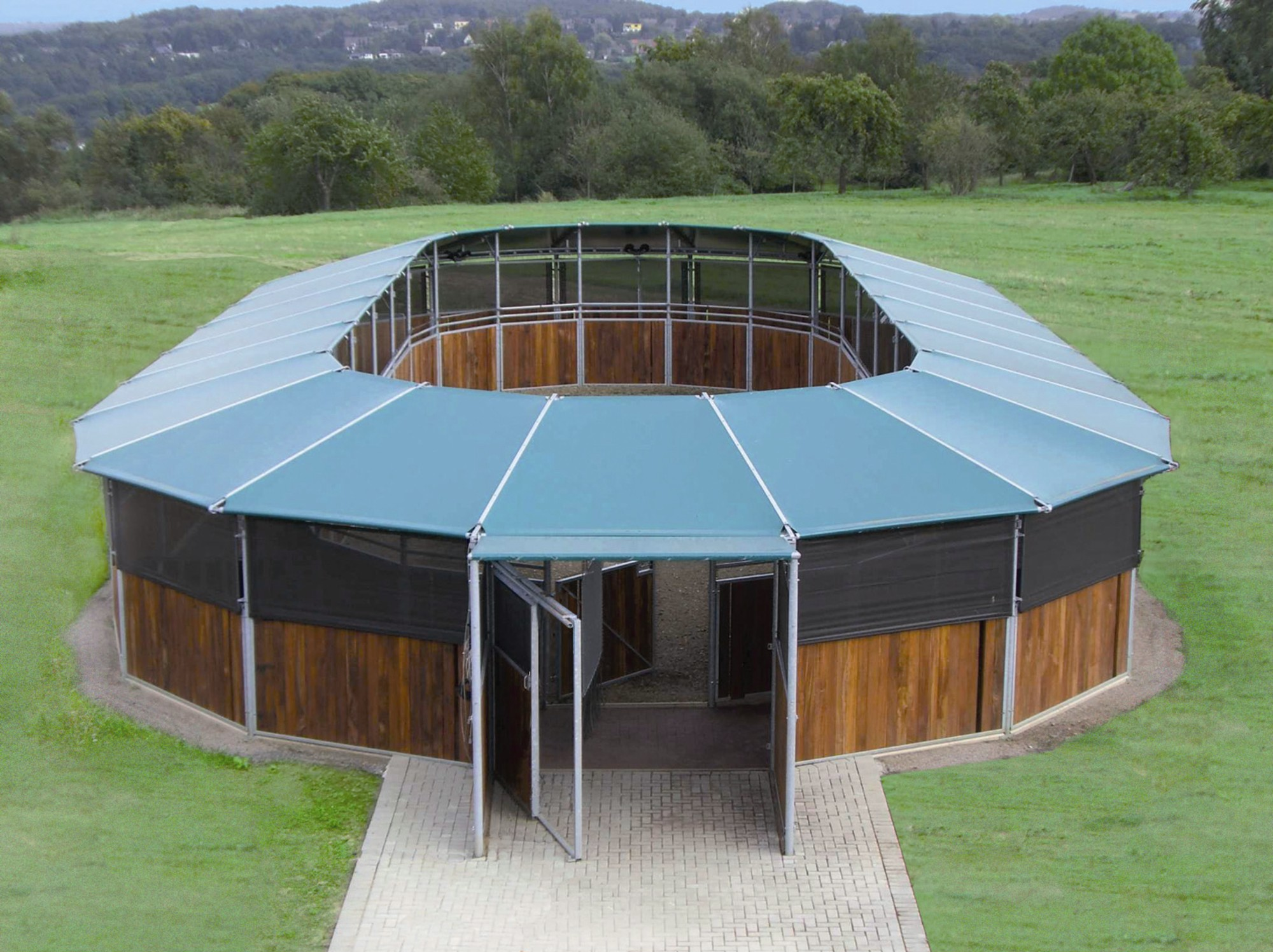 Oval horse walker